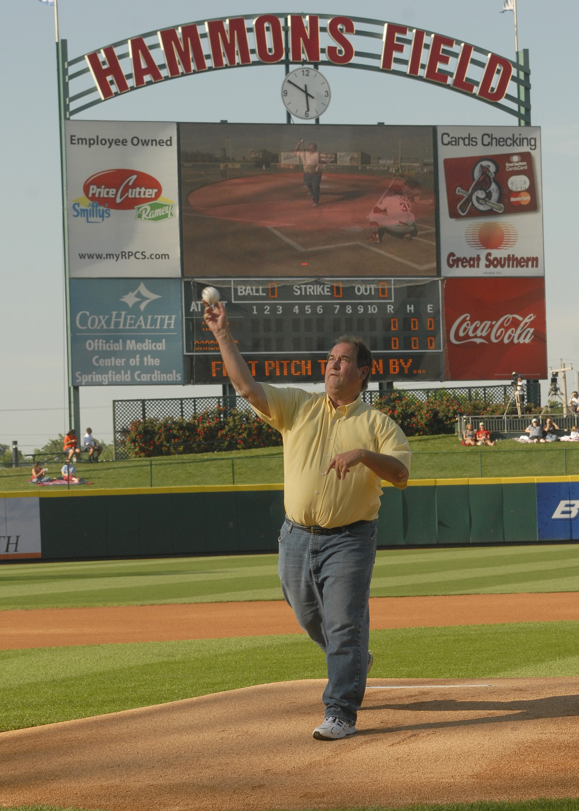 Rob Rains is the author of "The Curse" with Andy Van Slyke.